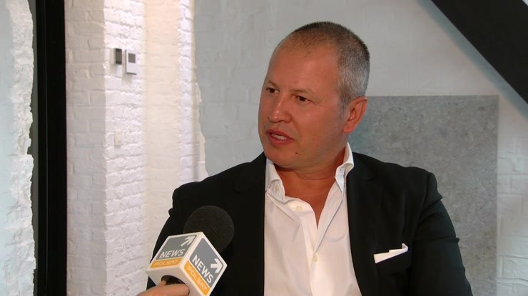 Jo Palma is the Founder and Design Partner of PALMA. With built work on five continents, including some of the world’s most significant sustainable mega buildings, Jo oversees the design of all projects